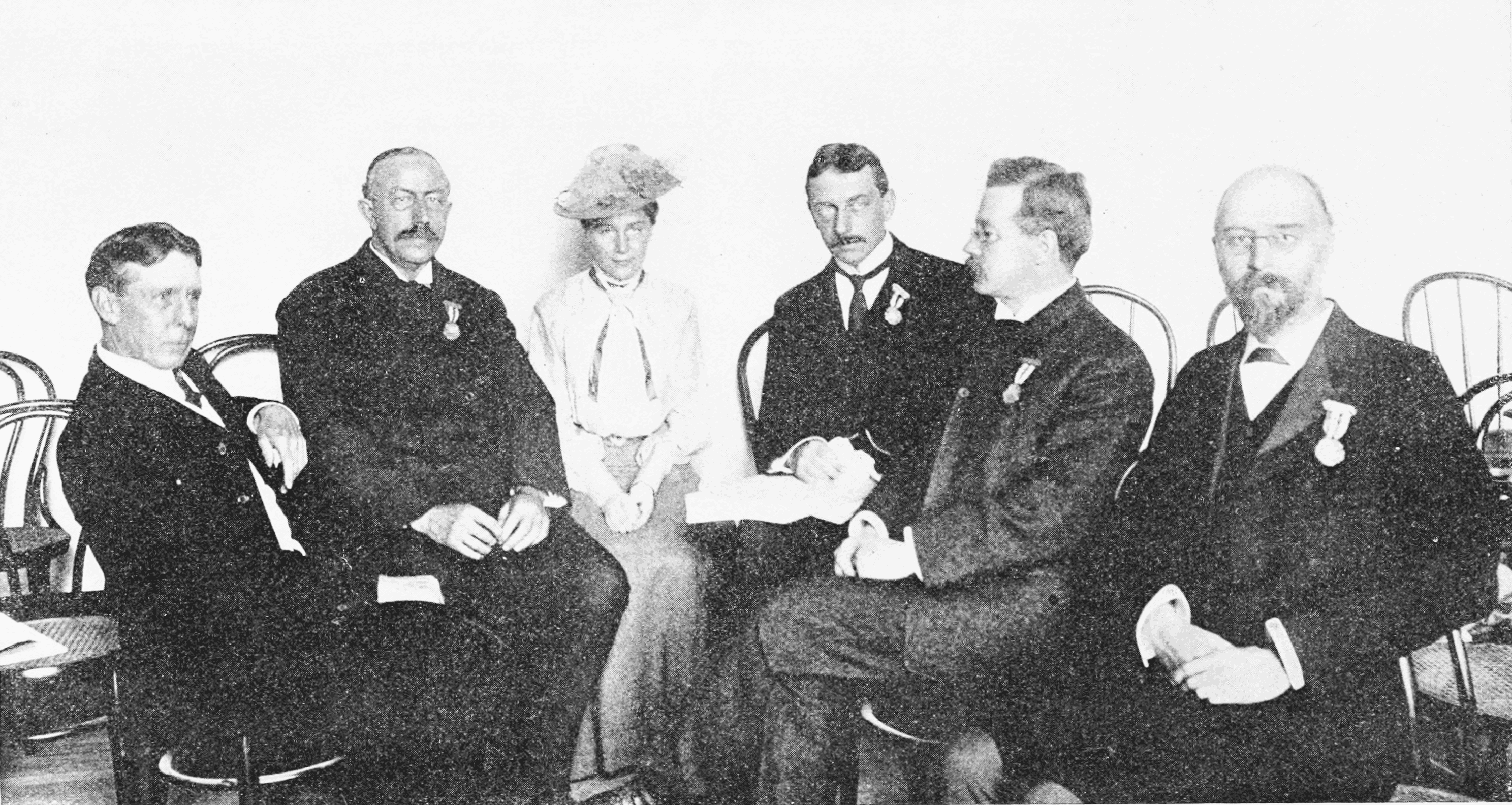 Officers of the paleontology section of the St Louis Congress John M Clarke ; David Starr Jordan ; unknown woman ? ; Henry F Osborn ; William Berryman Scott ; Arthur Smith Woodward